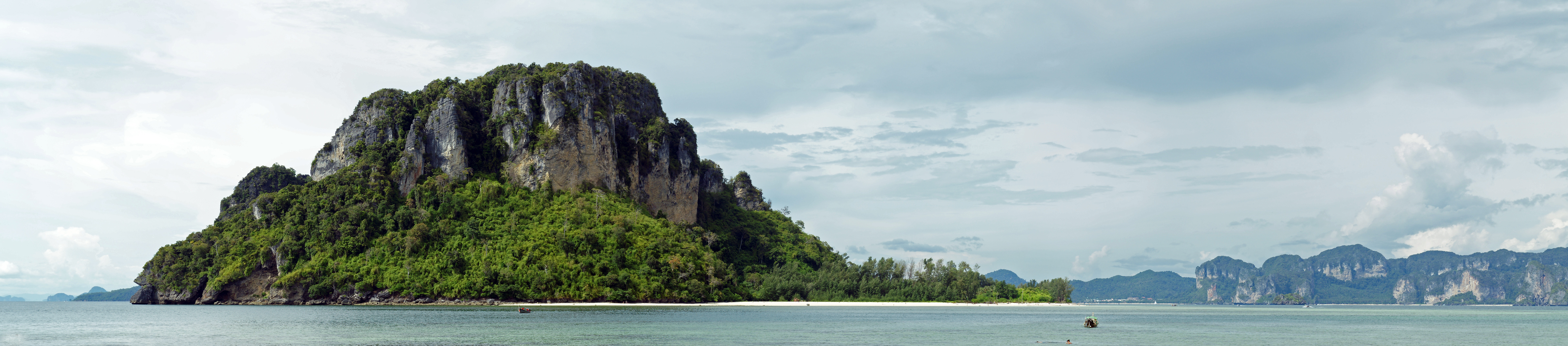 Panorama of Poda Island in Krabi, Thailand. Taken from Tub Island.